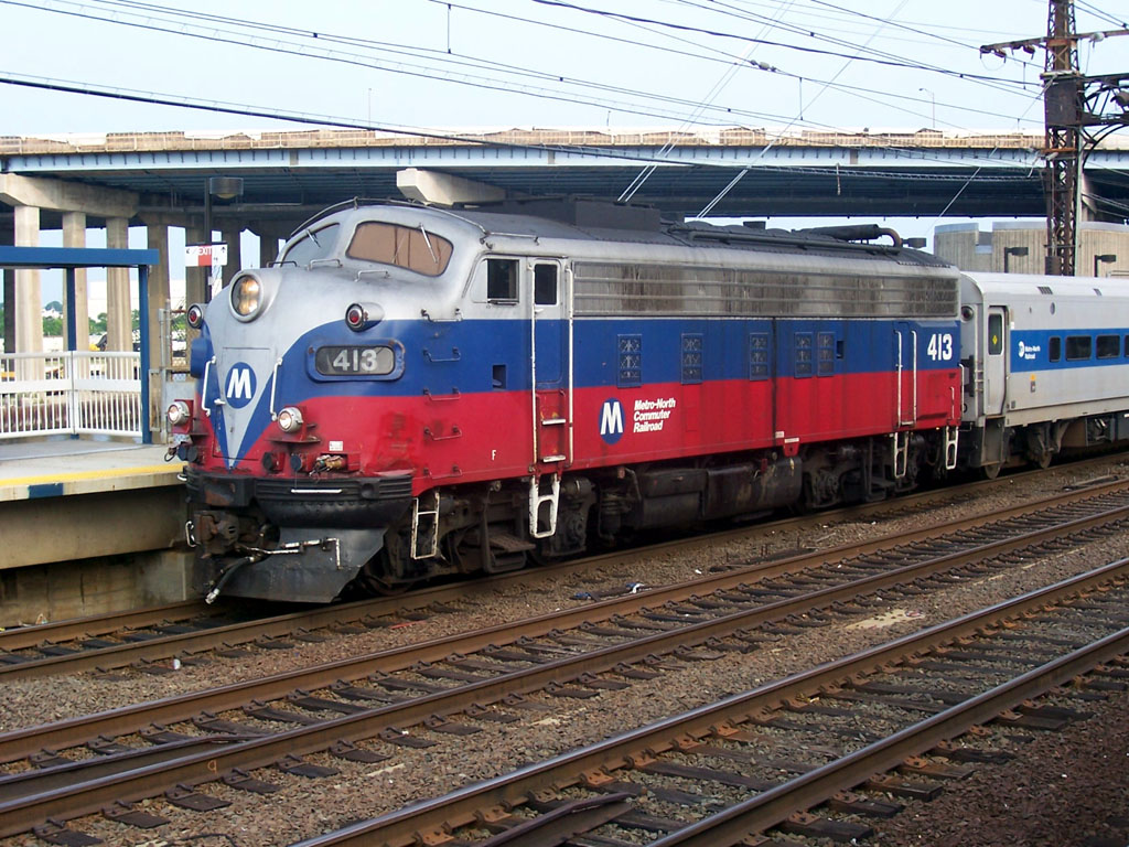 1946 EMD F10 (rebuilt from an F3) locomotive 413 pulling Metro-North train 1926 at the Bridgeport Railroad Station.